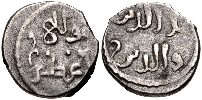 ISLAMIC, Persia (Post-Seljuk). Nizari Isma'ilis (Assassins in Persia). 'Ala' al-Din Muhammad III. AH 618-653 / AD 1221-1255. AR Fractional Dirham (13mm, 1.78 g, 9h). Album 1921A. VF, lightly toned. Extremely rare.